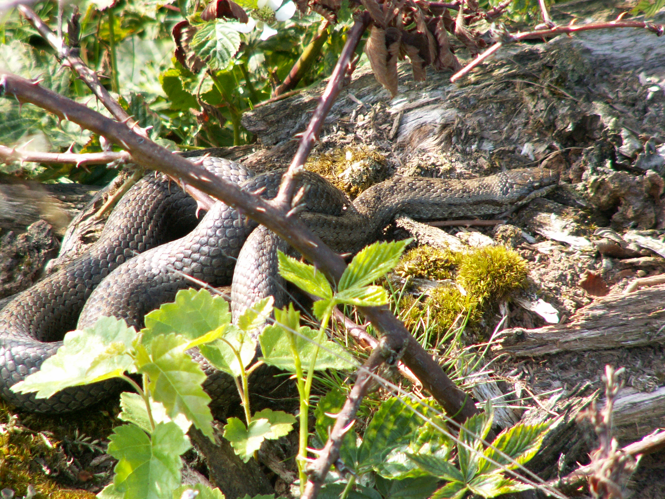 Coronella austriaca on a favoured tree trunk, the Veluwe, the Netherlands